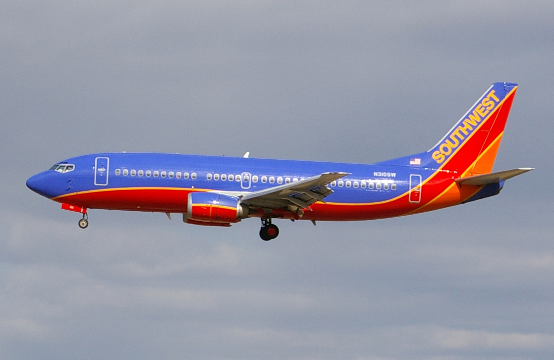 Southwest Airlines 737-300 N310SW. I took this photo of a Southwest Airlines Jet landing at Baltimore-Washington International Thurgood Marshall Airport on March 4, 2007 from the airplane observation area on airport grounds. This image is a crop of a photo taken with a Pentax K100D digital SLR camera. MamaGeek (talk/contrib) 15:46, 22 March 2007 (UTC)